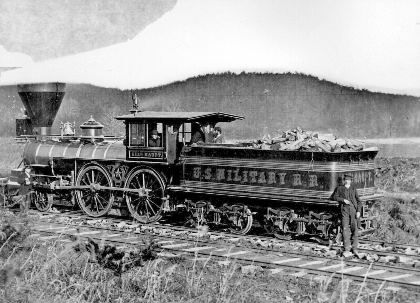 US Military Railroads engine General Haupt